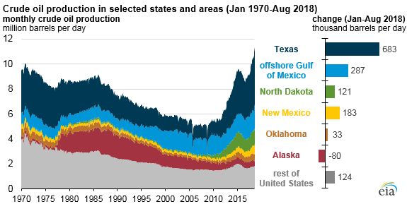 U.S. crude oil production reached 11.3 million barrels per day (b/d) in August 2018, up from 10.9 million b/d in July. November 1, 2018